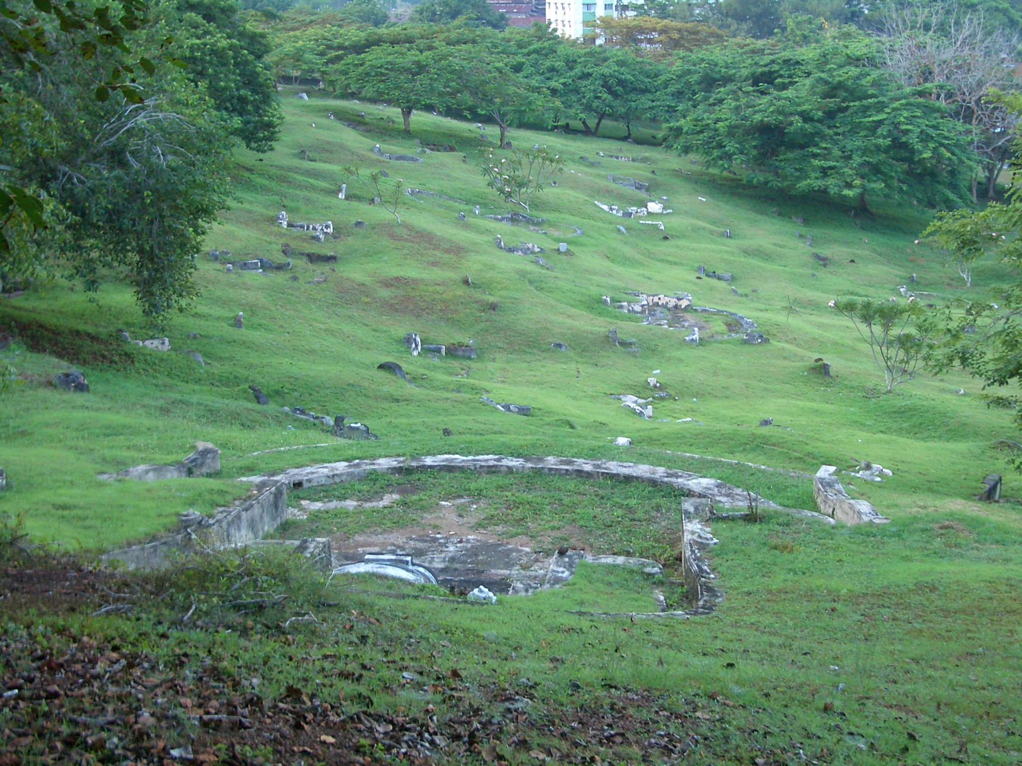 Graves, old and recent, in Bukit Cina Cemetery